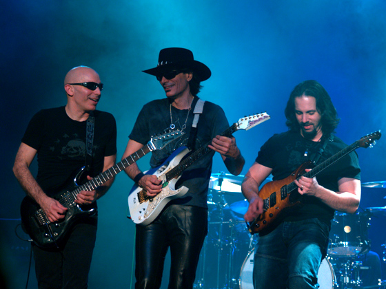 G3 - Joe Satriani, Steve Vai & John Petrucci The Palias, Melbourne, December 2006